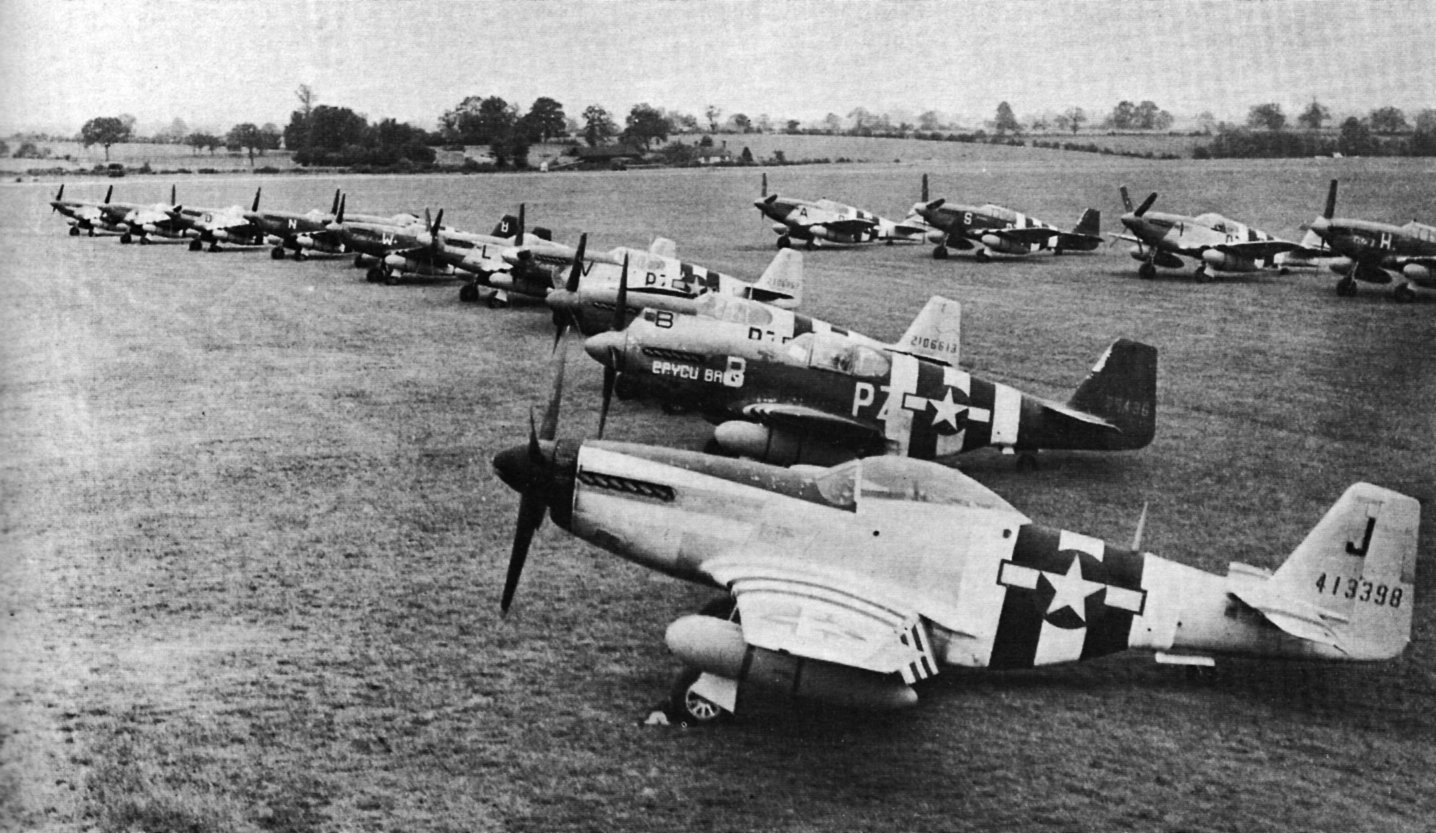 P-51 Mustangs of the 486th Fighter Squadron, 352nd Fighter Group at RAF Debden to fly with the 4th fighter Group the following day (21 June 1944) on the first 8th Air Force Operation Frantic mission from England to Russia with and return via Italy.